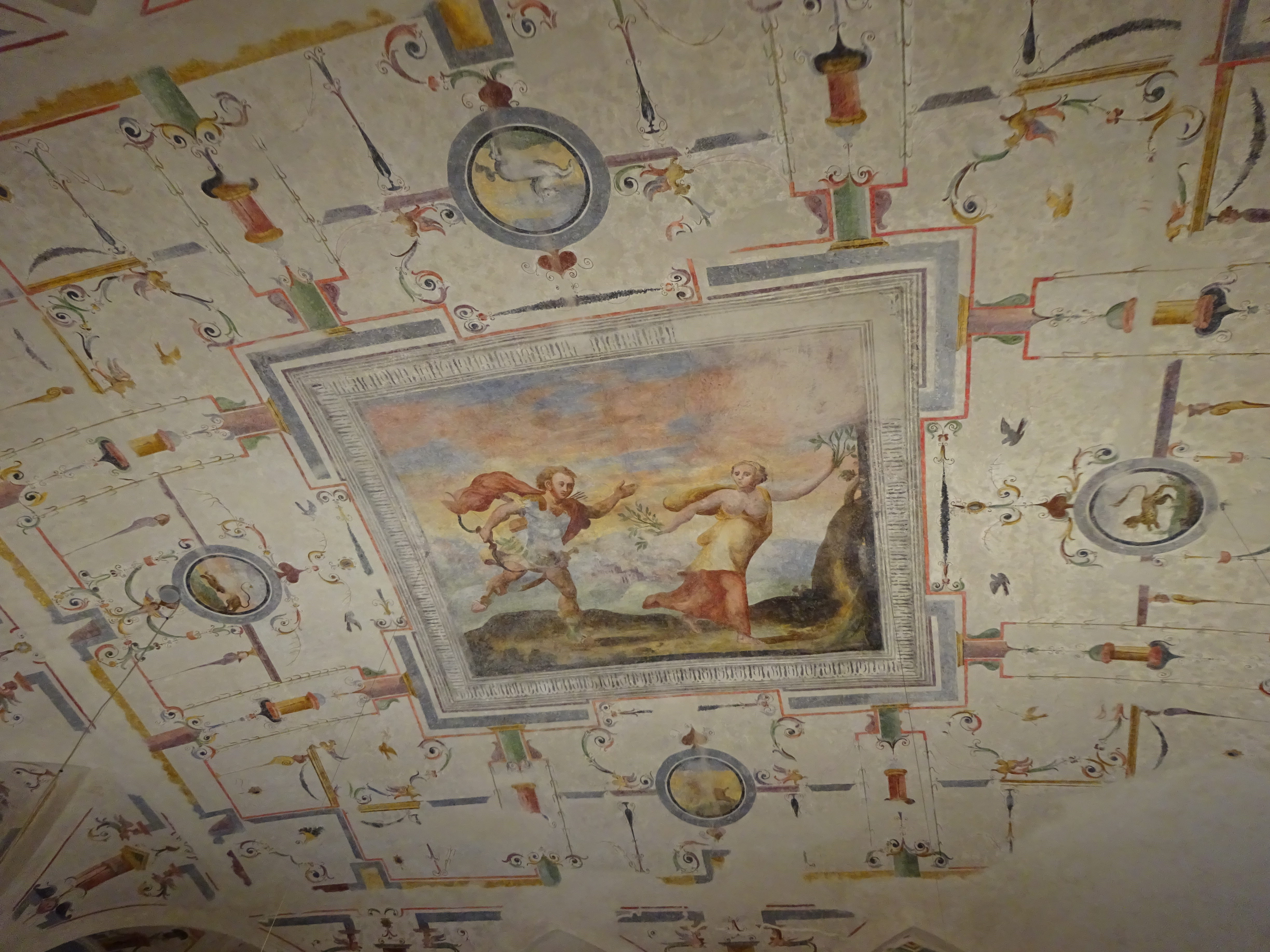 Detail of the decoration of Palazzo Doria Carcassi in Genoa